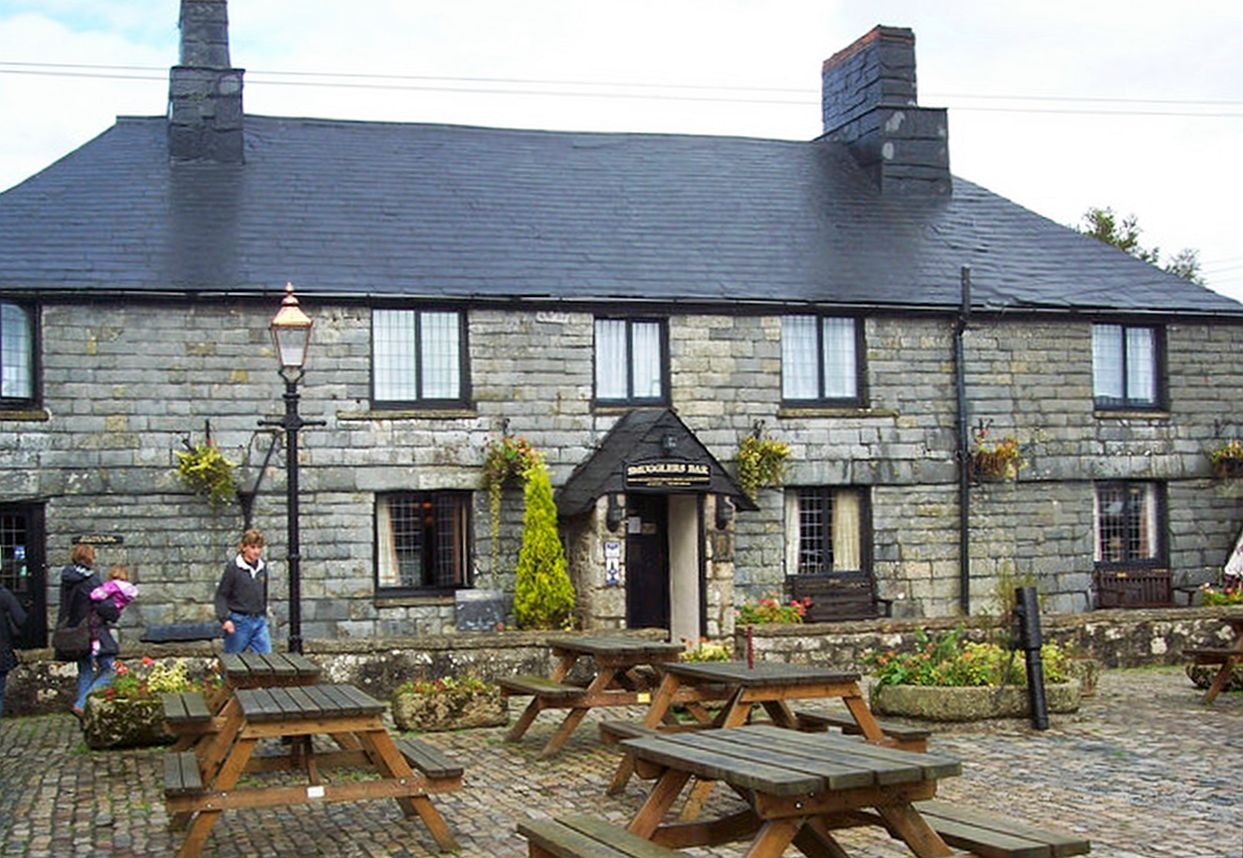 Jamaica Inn Entrance to the Smugglers Bar at Jamaica Inn.